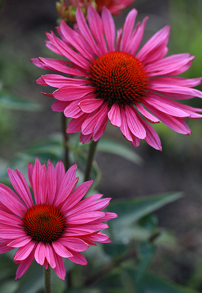 Echinacea 'Ruby Glow'